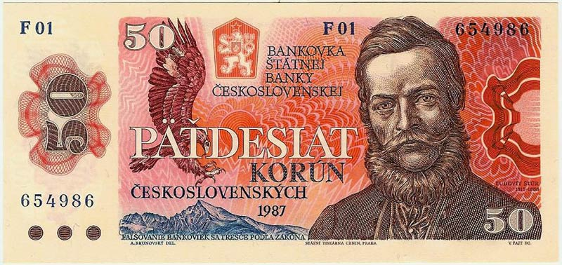 Obverse of the 50 Kčs banknote of the State Bank of Czechoslovakia dated 1987